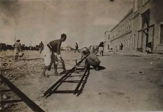 Decauville railway in Massawa or Libya